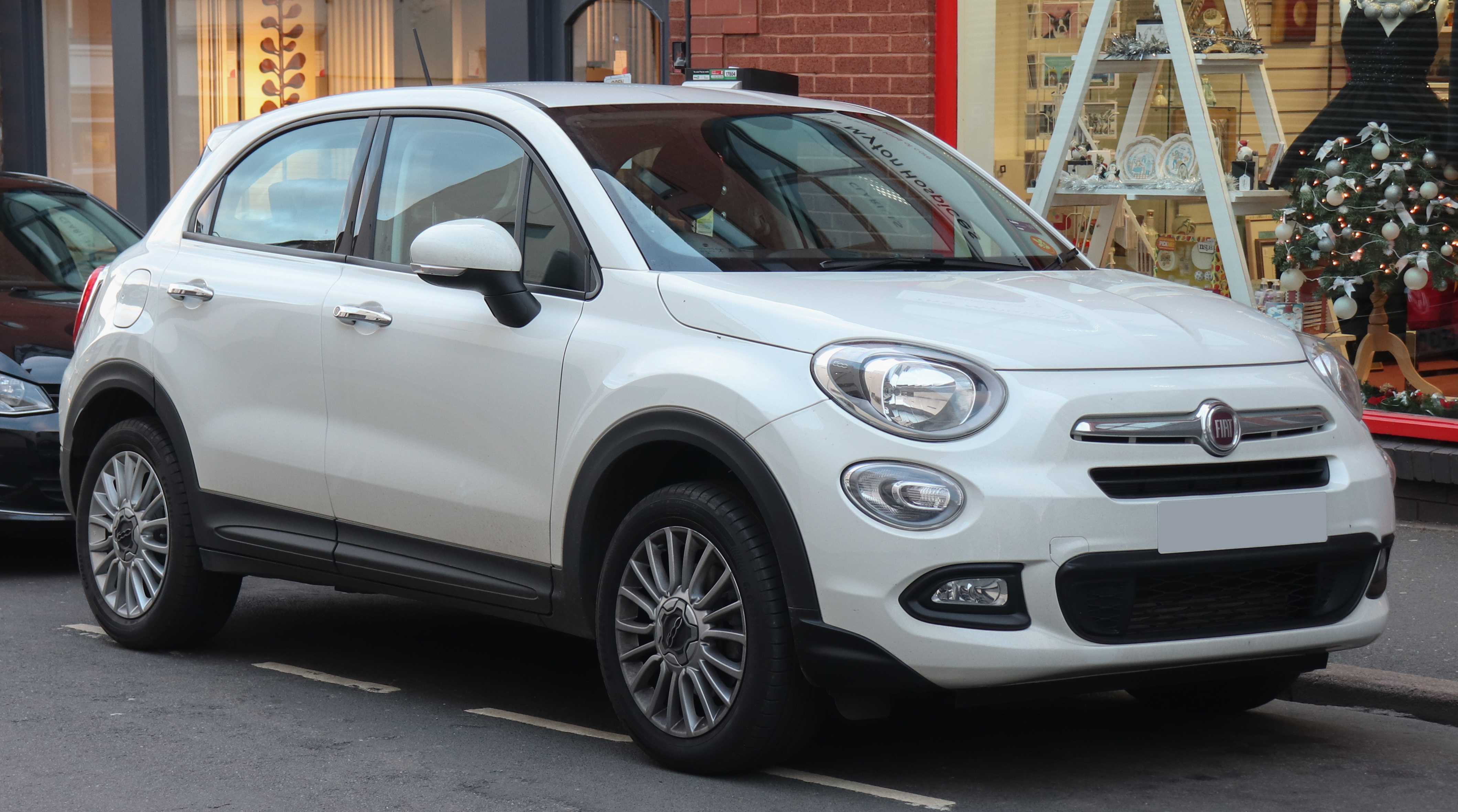 2017 Fiat 500X POP Star Multiair 1.4 Front Taken in Leamington Spa